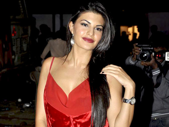 6th Apsara Film and Television Producers Guild Awards